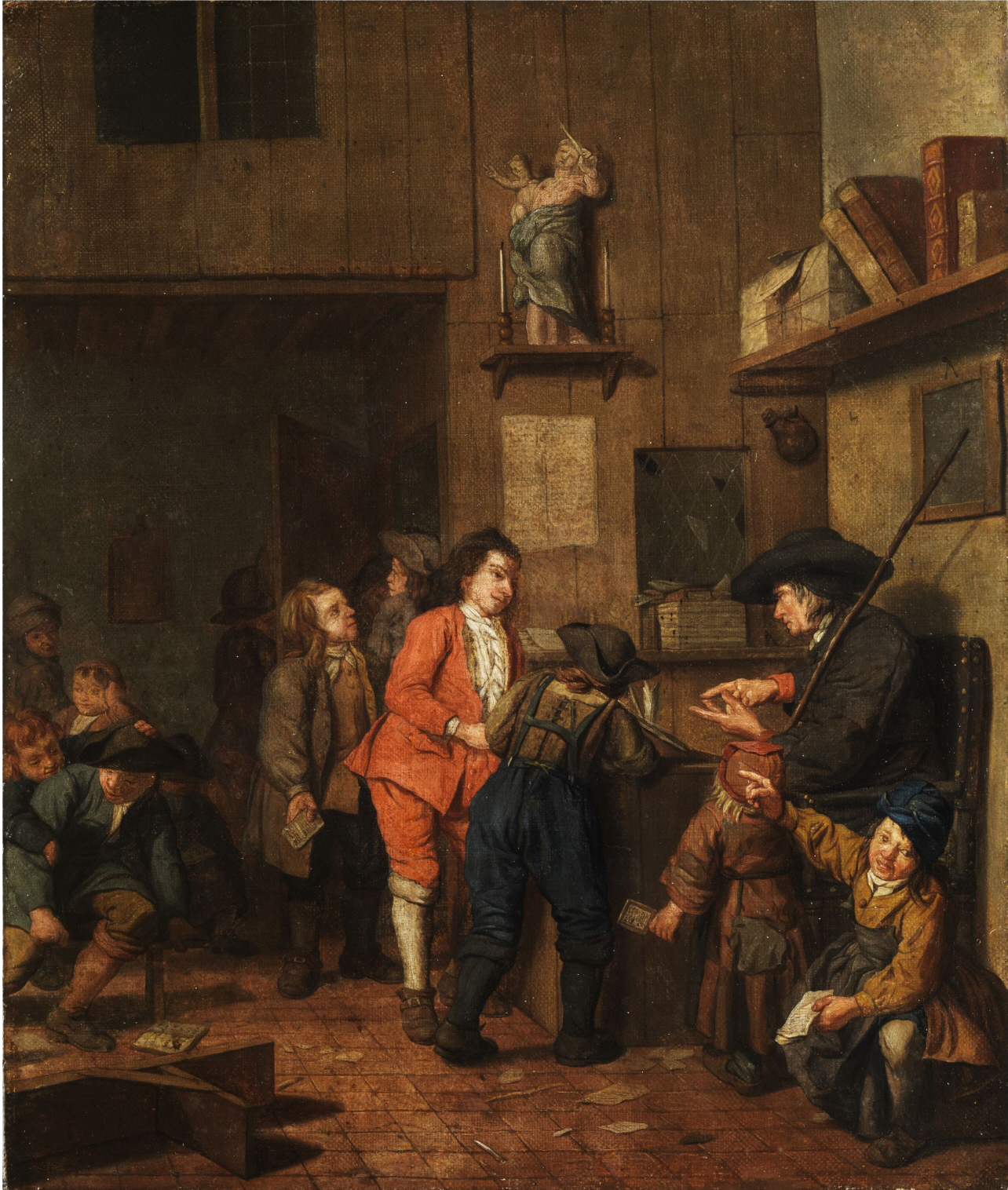 Boys' school, oil on canvas, 40 x 35 cm